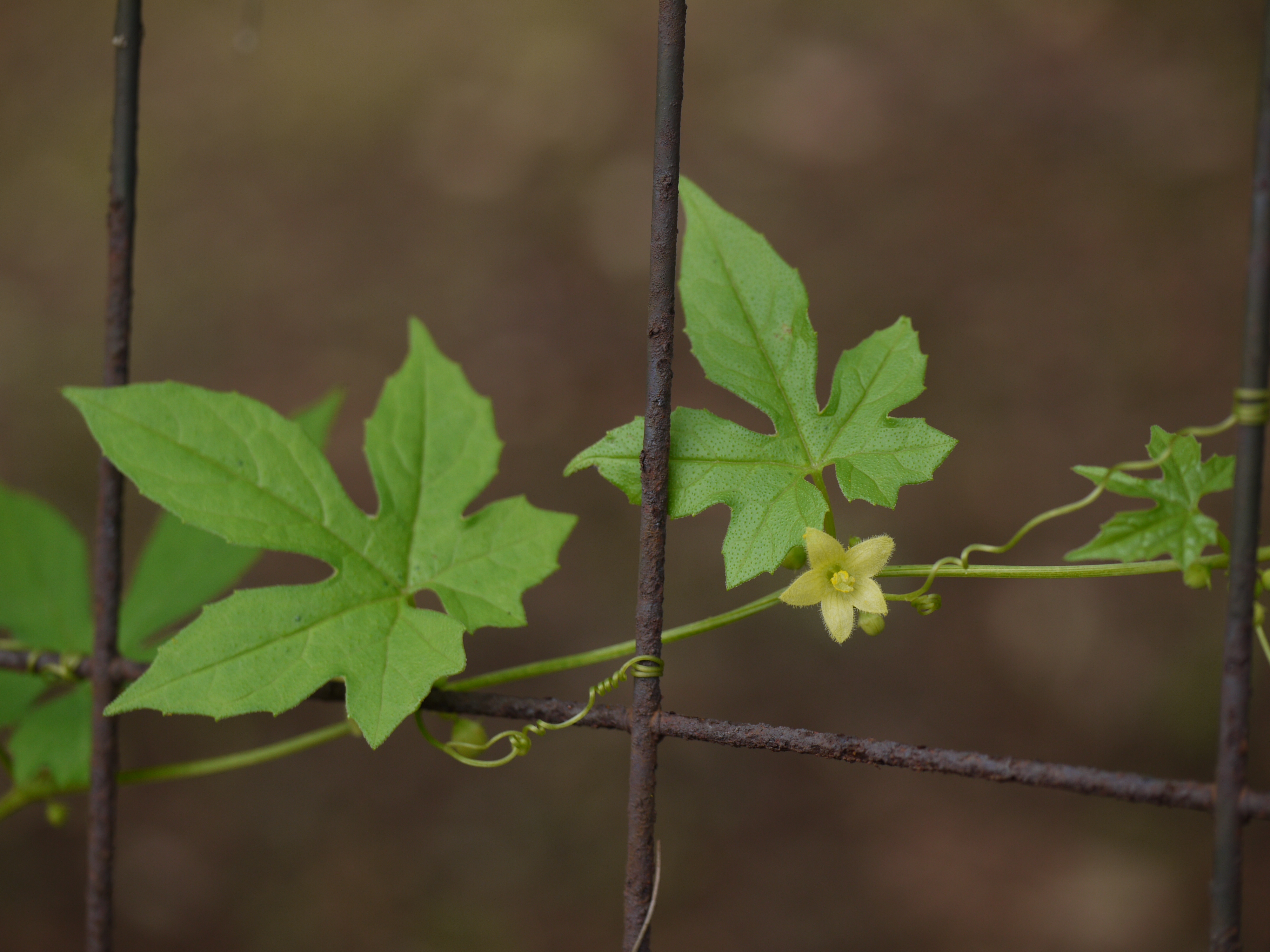 Cucurbitaceae (pumpkin, or gourd family) » Diplocyclos palmatus dy-PLO-sy-klos -- from the Greek diploos (double) and cyclos (circular, wheel) pahl-MAY-tus -- shaped like the palm of the hand commonly known as: bryony, lollipop climber, marble vine • Hindi: शिवलिंगी shivalingi • Kannada: ಲಿಮ್ಗತೊಮ್ಡೆ ಬಳ್ಳಿ limgatomde balli • Marathi: महादेवी mahadevi, शिवलिंगी shivalingi • Sanskrit: अपष्ठम्भिनी apashtambhini, चित्रफला chitraphala, लिङ्गिन् lingin, शिवलिङ्गी shivalingi • Tamil: ஐவிரலி aivirali • Telugu: లింగదొండ linga-donda Native to: tropical Africa, China, Japan, Bhutan, India, Indo-China, Malesia, n Australia References: Flowers of India • ENVIS - FRLHT • NPGS / GRIN • DDSA